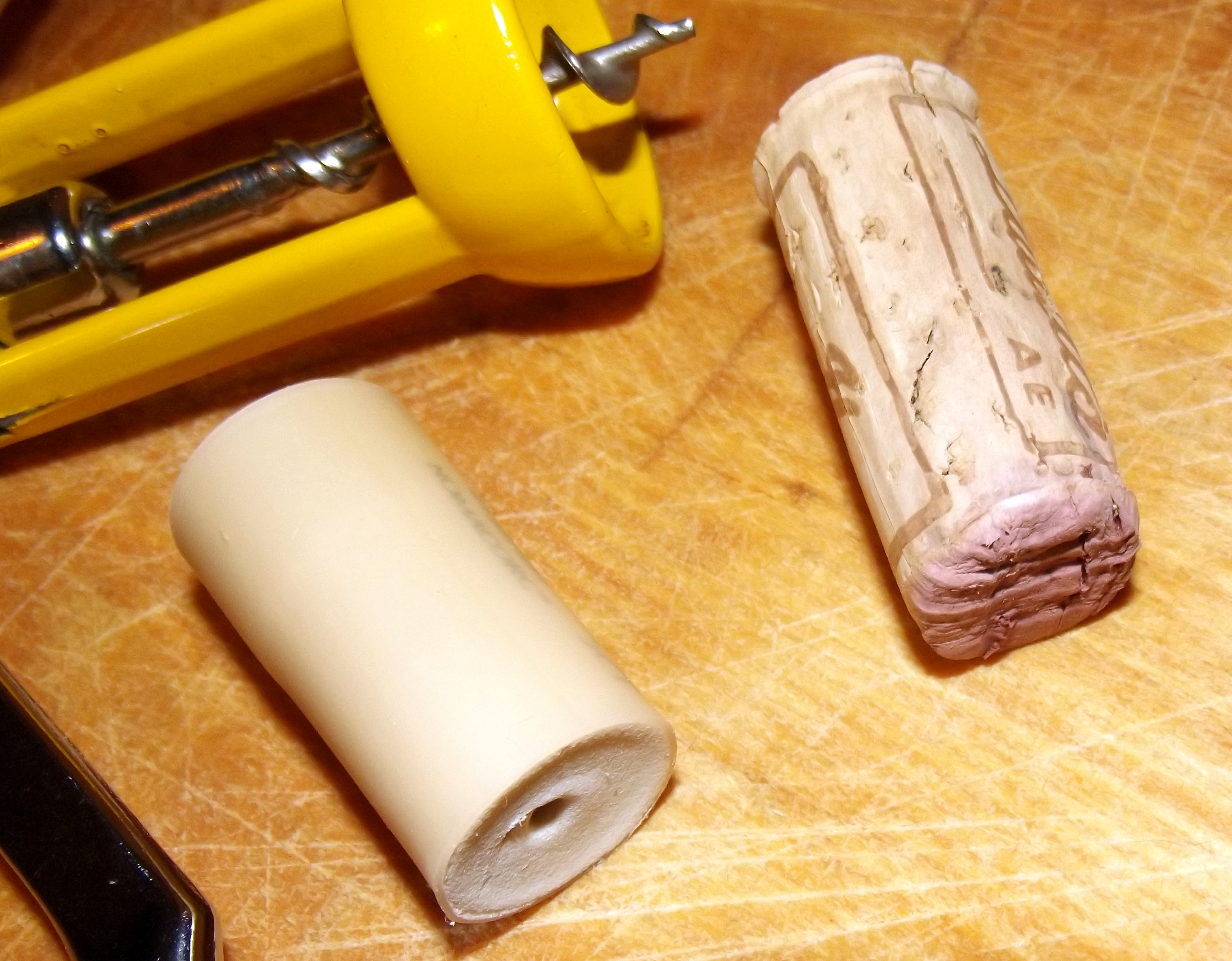 Synthetic (left) and cork (right) wine closures